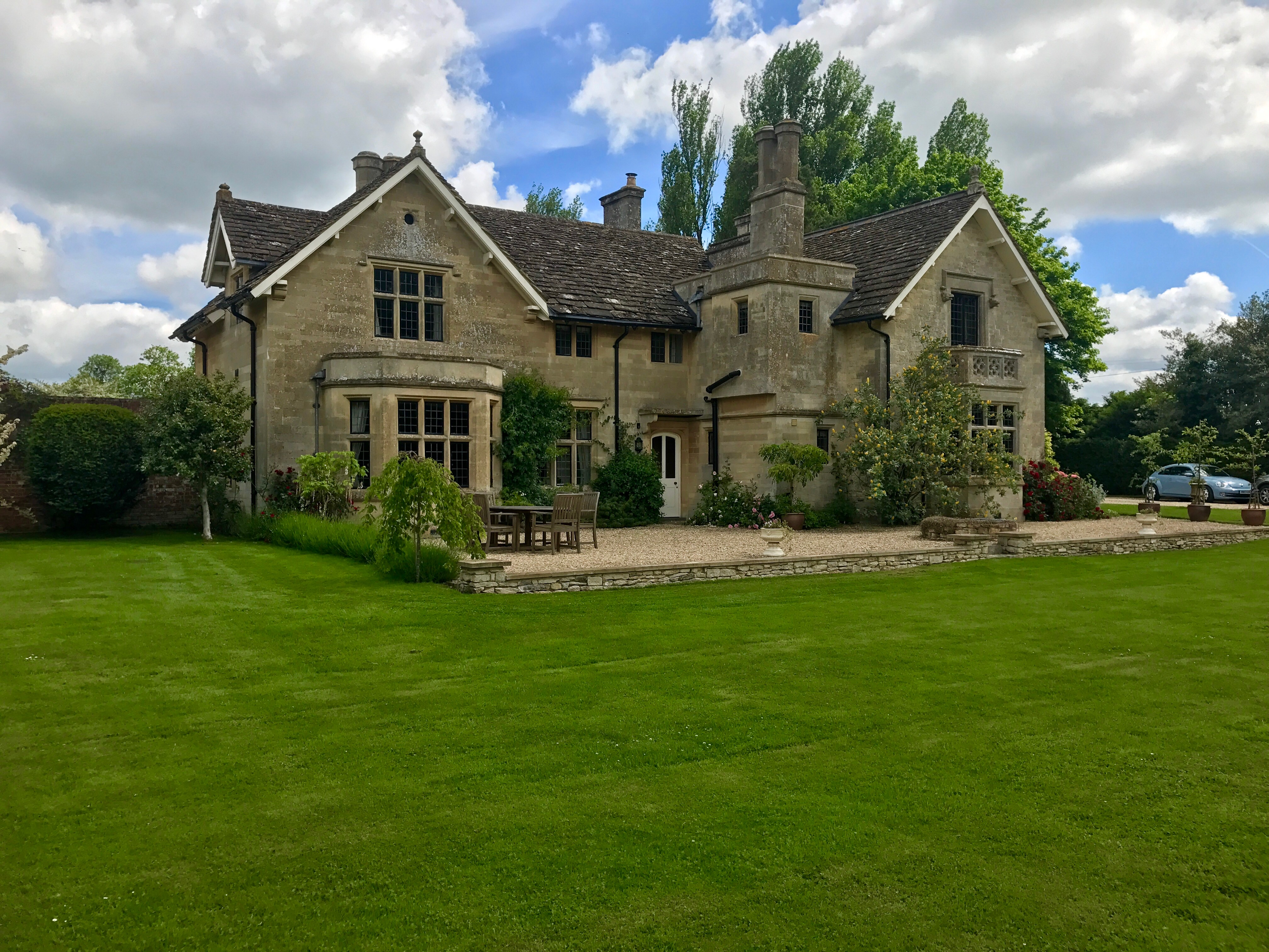 Shows photo taken from the front land of the manor.